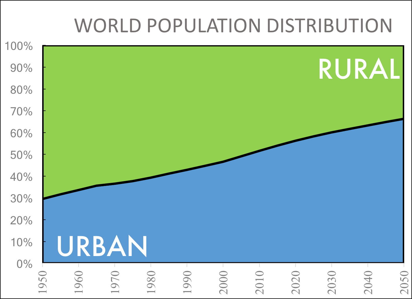 Historical global trends in urban/rural populations.